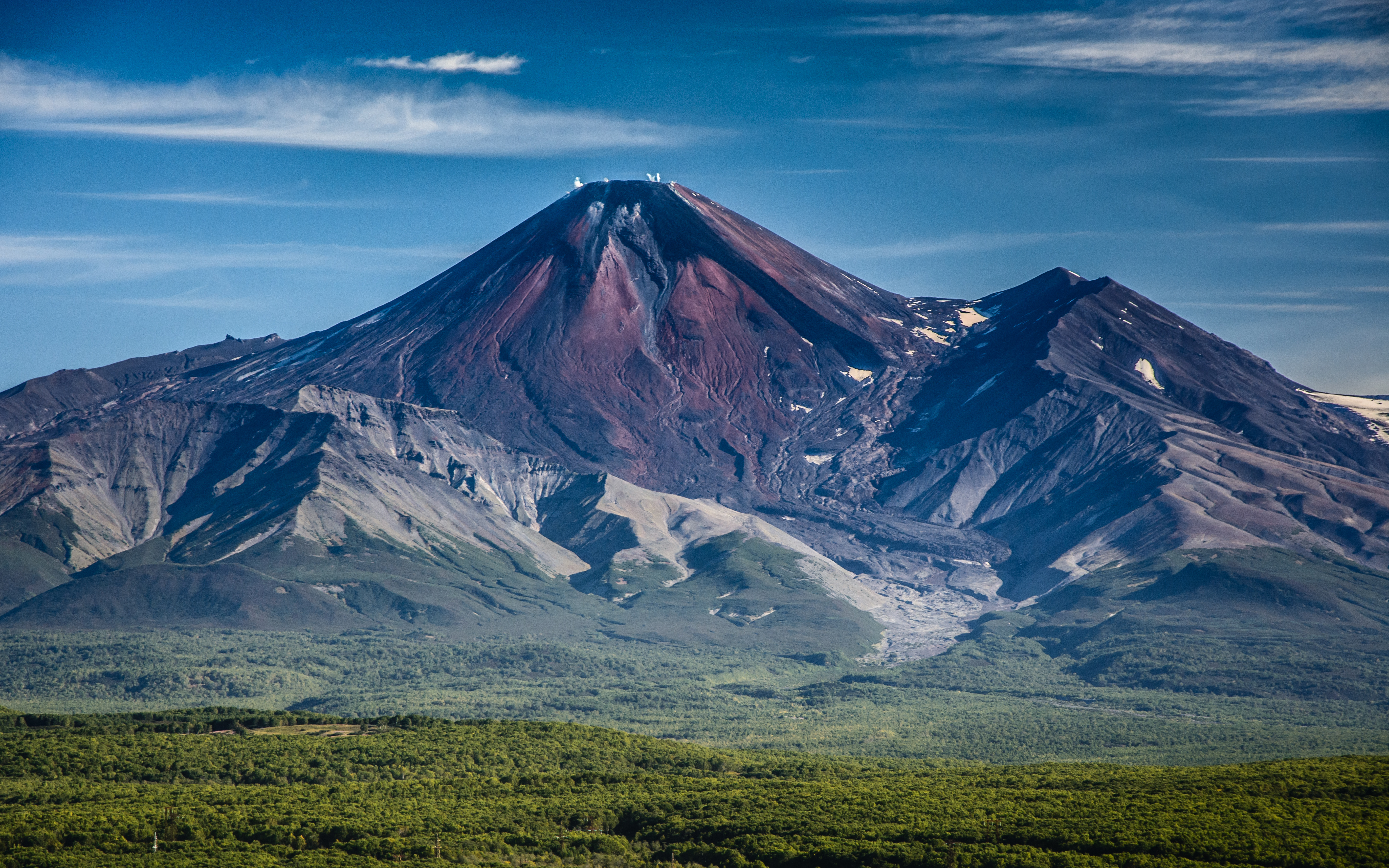 The Southwest side of Avachinsky Volcano in Kamchatka, Russia.